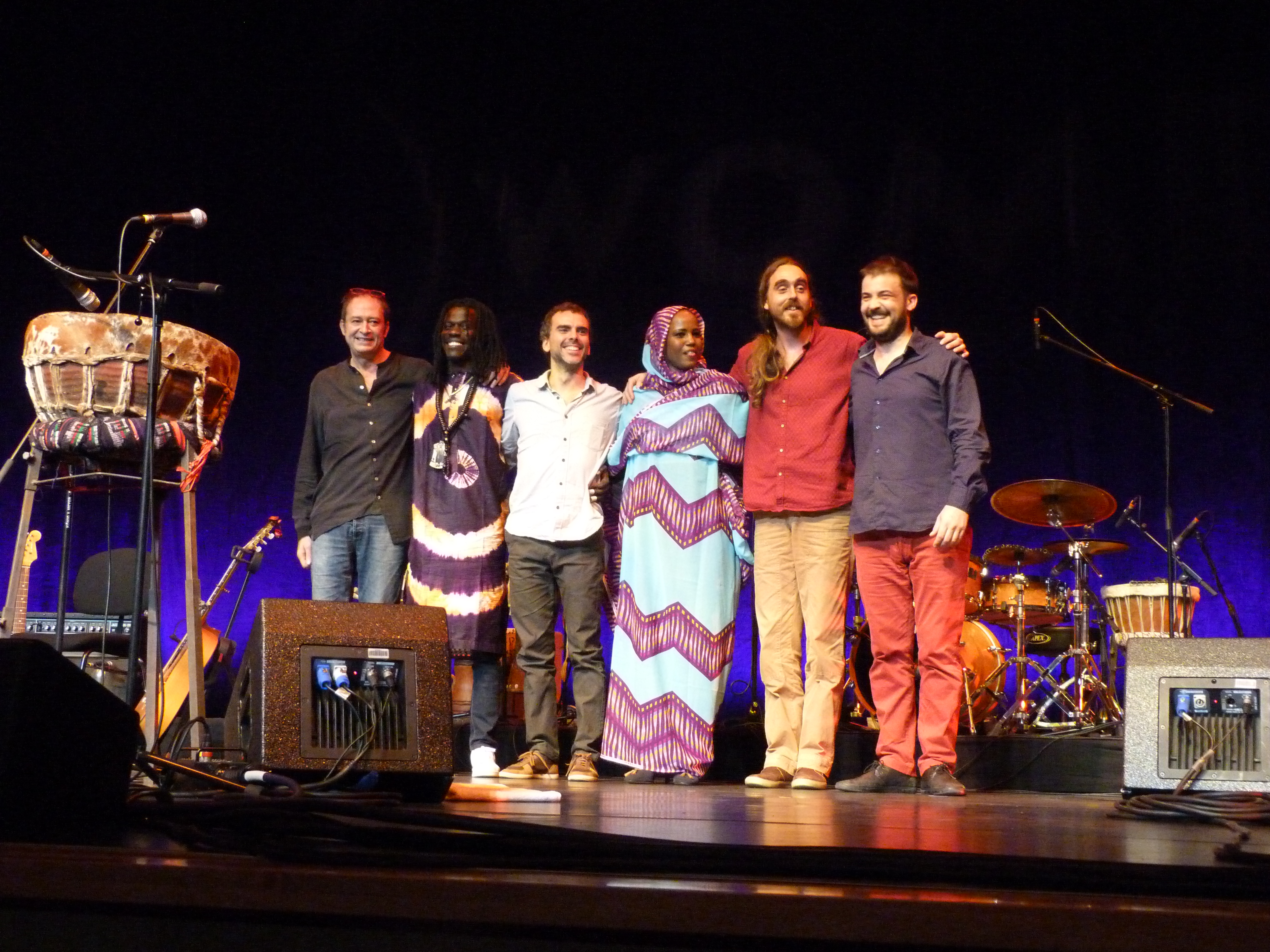 Live on the 22nd of October, 2015. World Music Expo 2015, Budapest, Hungary. Aziza Brahim and Gulili Mankoo (band)